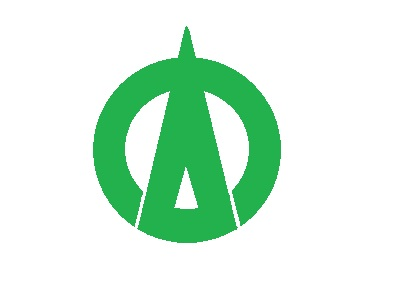 Flag of Koryo Nara